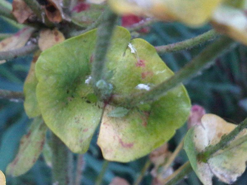 Macrosiphum rosae in London, England.